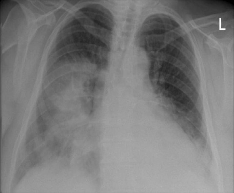 Chest X-ray (PA view) at initial presentation showing consol- idation within the right mid and both lower lobes.